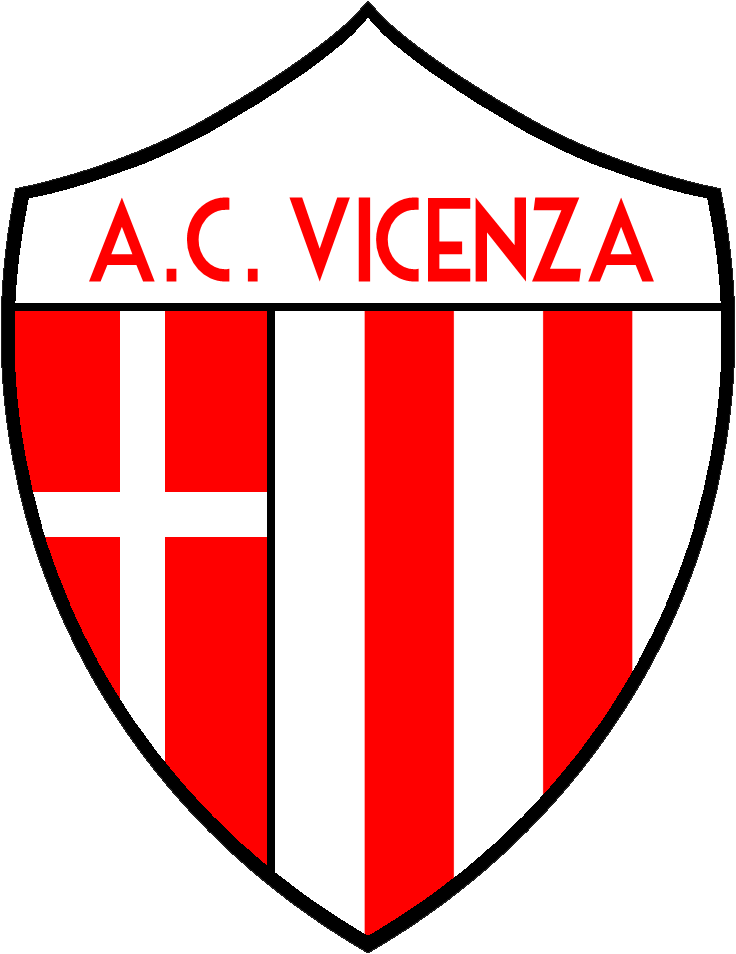 Historic logo of Associazione del Calcio in Vicenza (commonly ACIVI), Italian professional football club based in Vicenza (Italy), circa 1902.